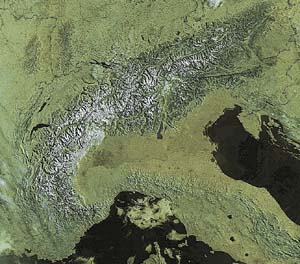 The European Alps from space in May 2002.